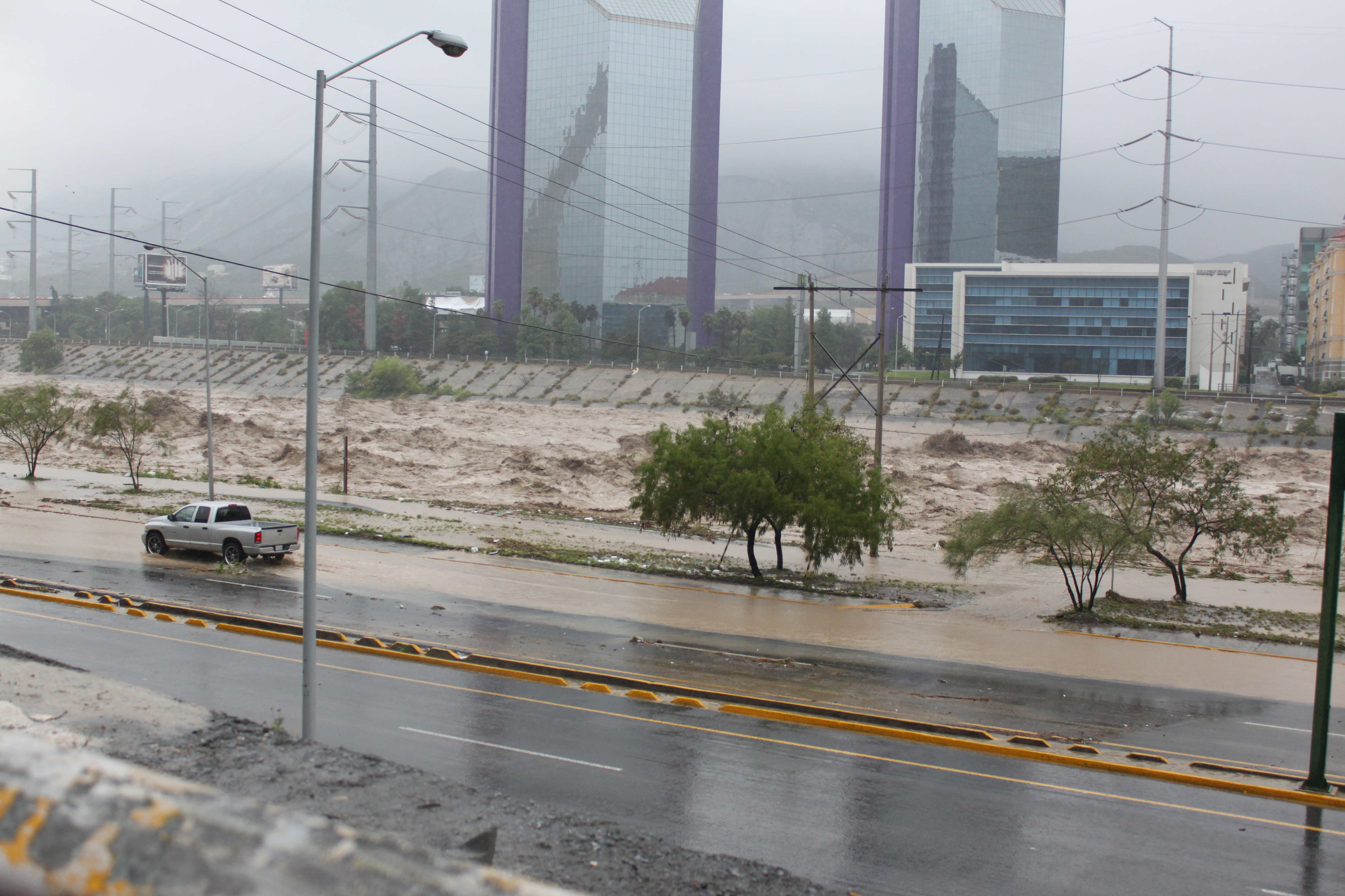 The Santa Catarina River in Monterrey, Nuevo León flooded by Hurricane Alex.